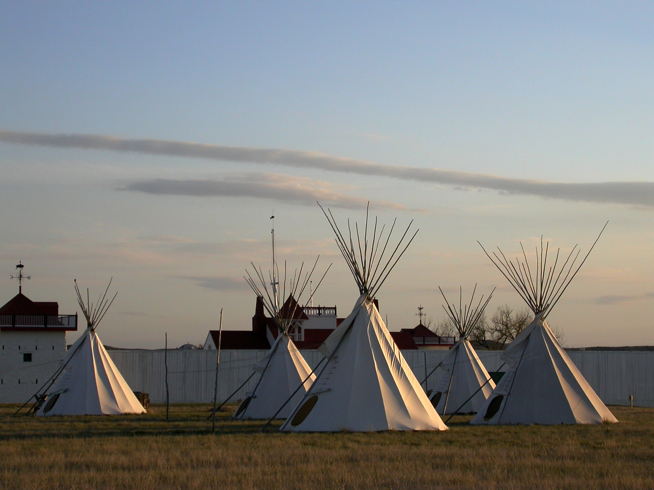 Location Fort Union Trading Post National Historic Site on the North Dakota / Montana Border Description The fort, possibly first known as Fort Henry or Fort Floyd, was built in 1828 or 1829 by the Upper Missouri Outfit managed by Kenneth McKenzie and capitalized by John Jacob Astor's American Fur Company. Fort Union was the most important fur trading post on the upper Missouri until 1867.